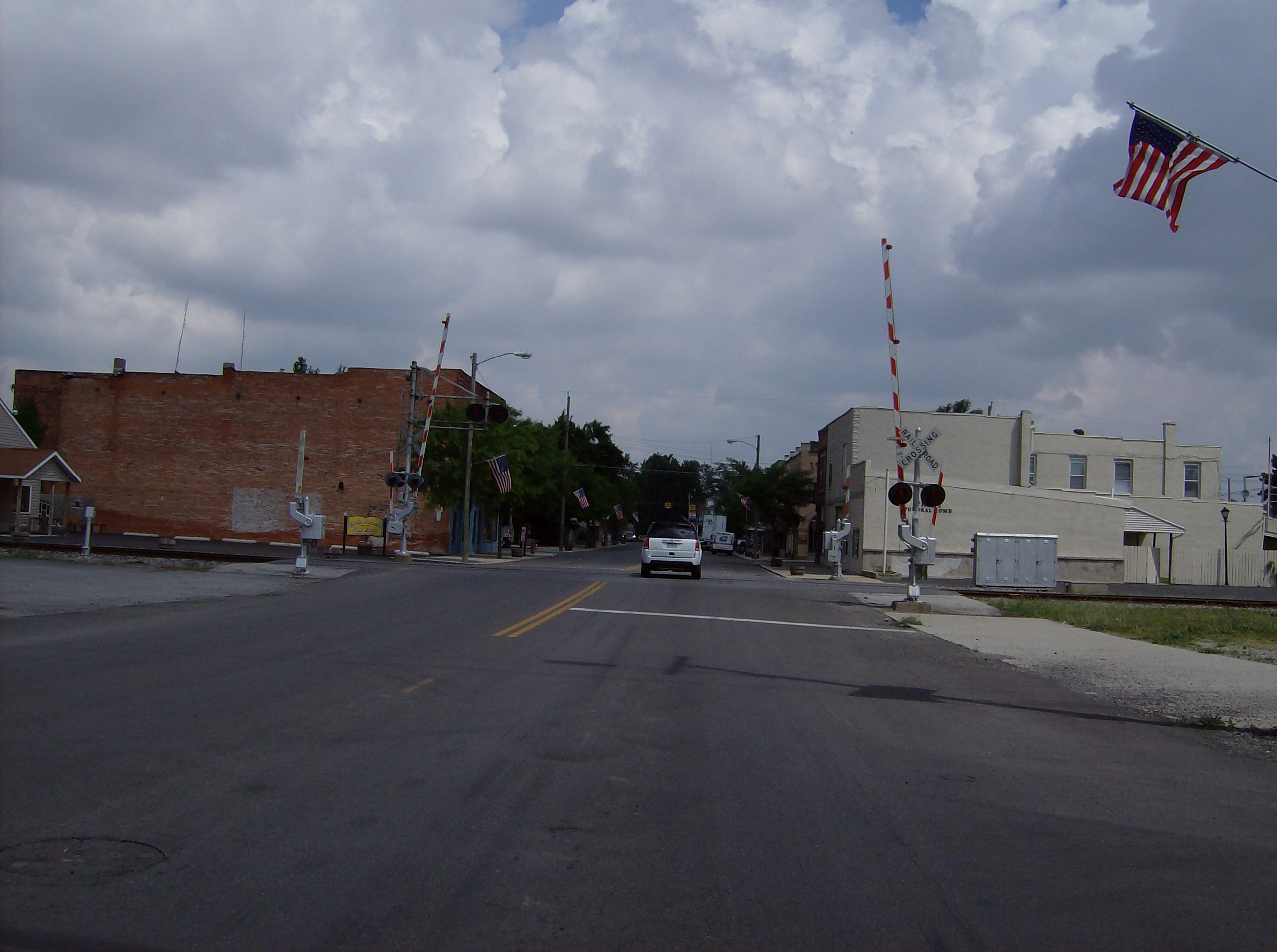 Travelling northward along Main Street (U.S. Route 68) in Dunkirk, Ohio, United States.